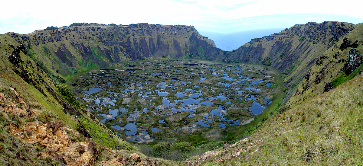 Rano Kau volcano at Orongo - Easter Island